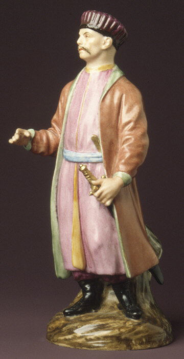 Russian, St. Petersburg; Figure; Ceramics-Porcelain